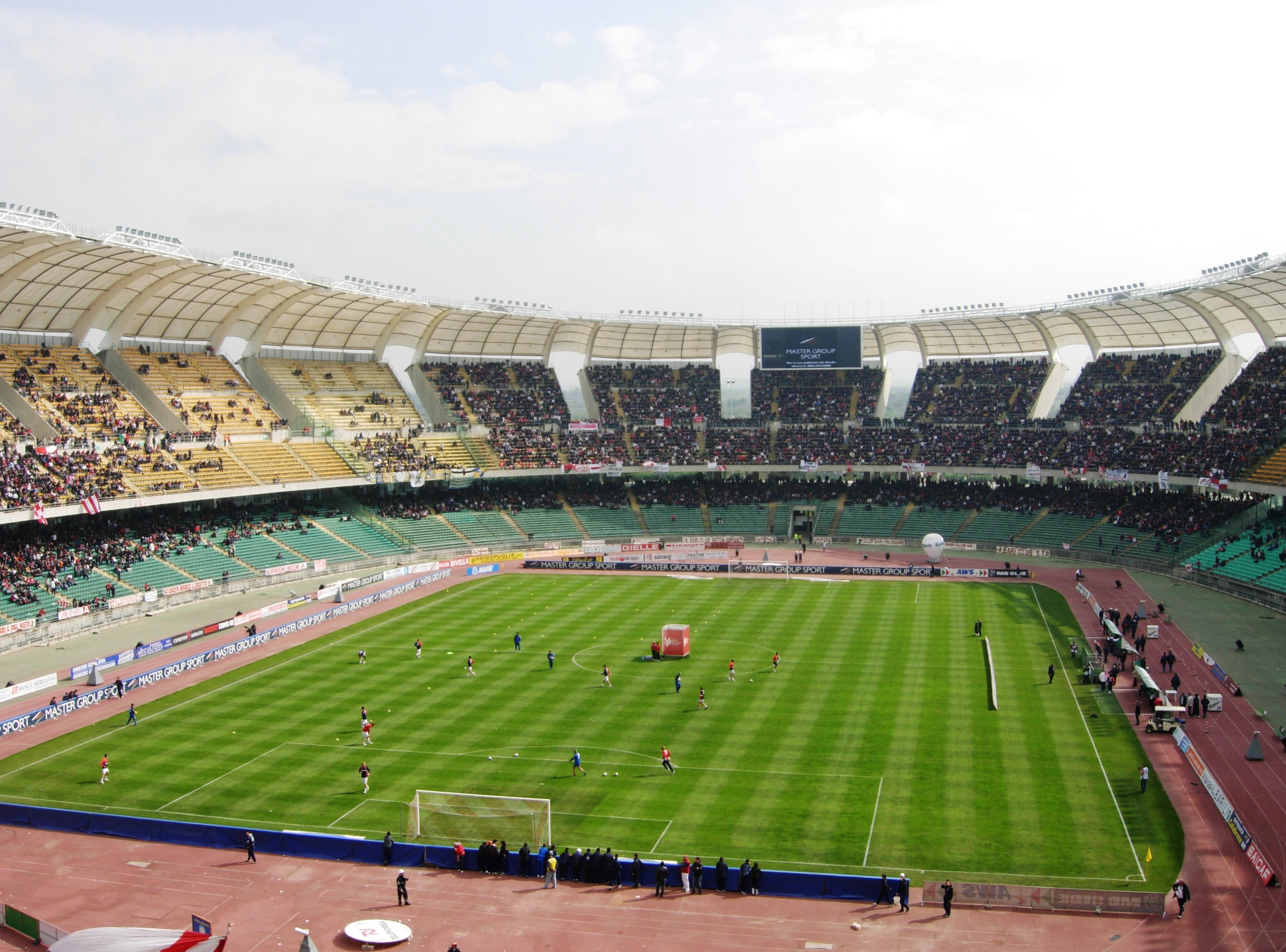 Field view of Stadio San Nicola, home ground of Bari Calcio